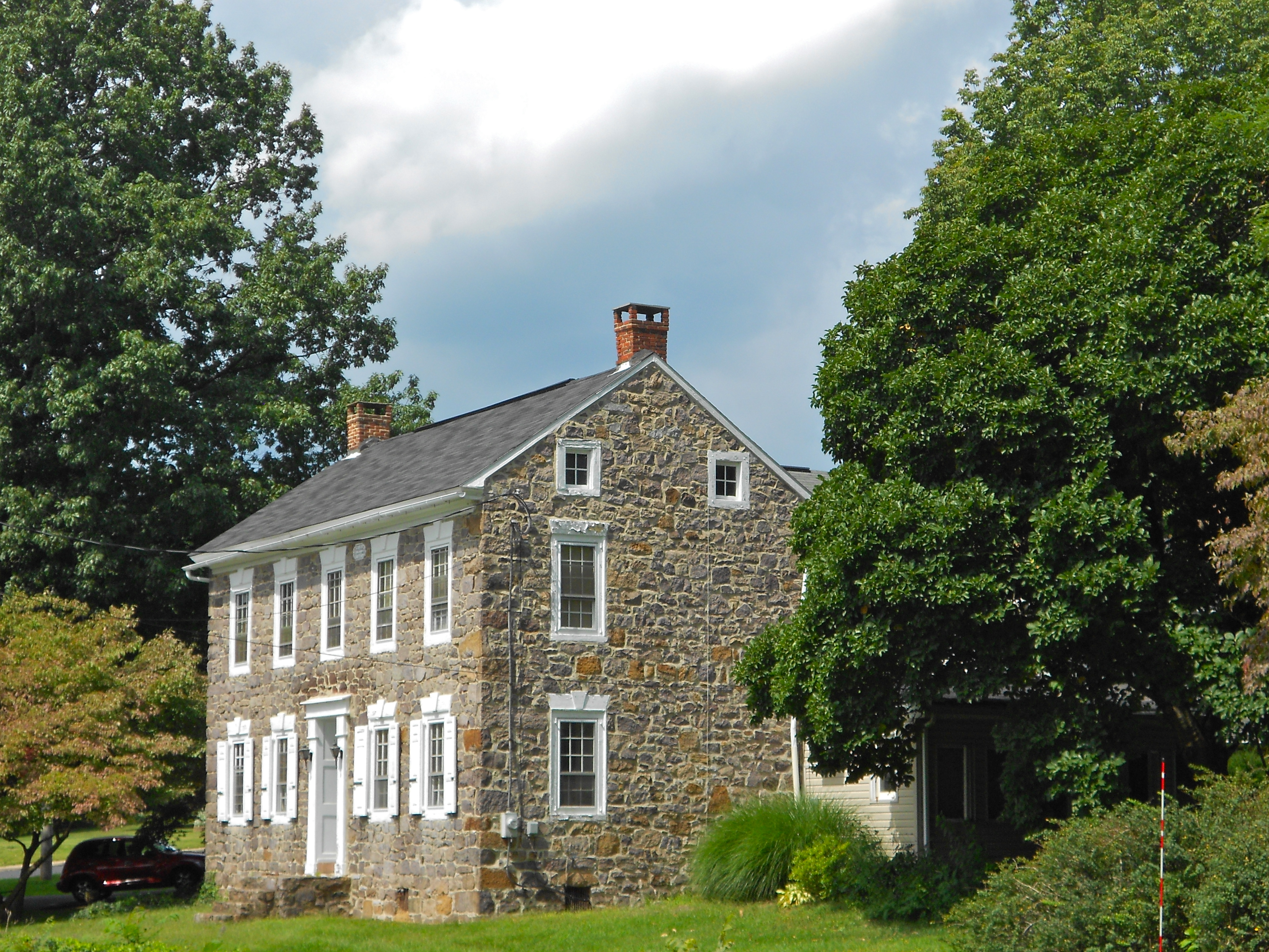 Oley Township Historic District The entire township is listed on the NRHP as a historic district.